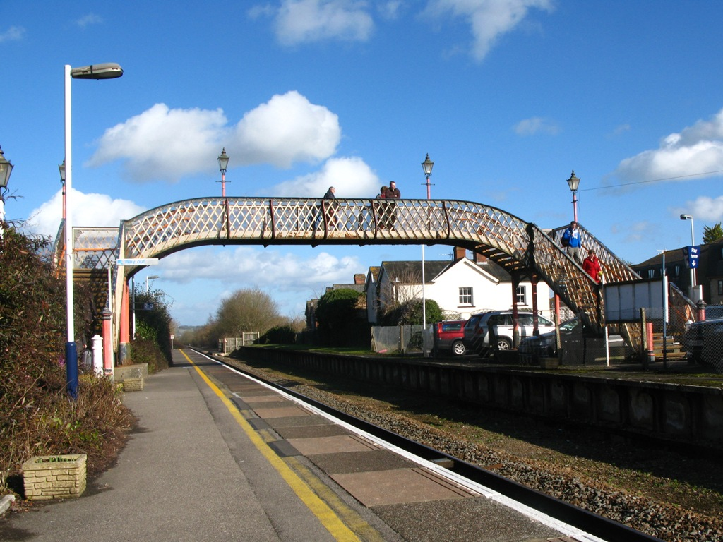 The footbridge at Templecombe station, Somerset, England. This was originally erected at Buxted in 1893 but was moved to Templecombe more than 100 years later for further use when the station there was reopened.